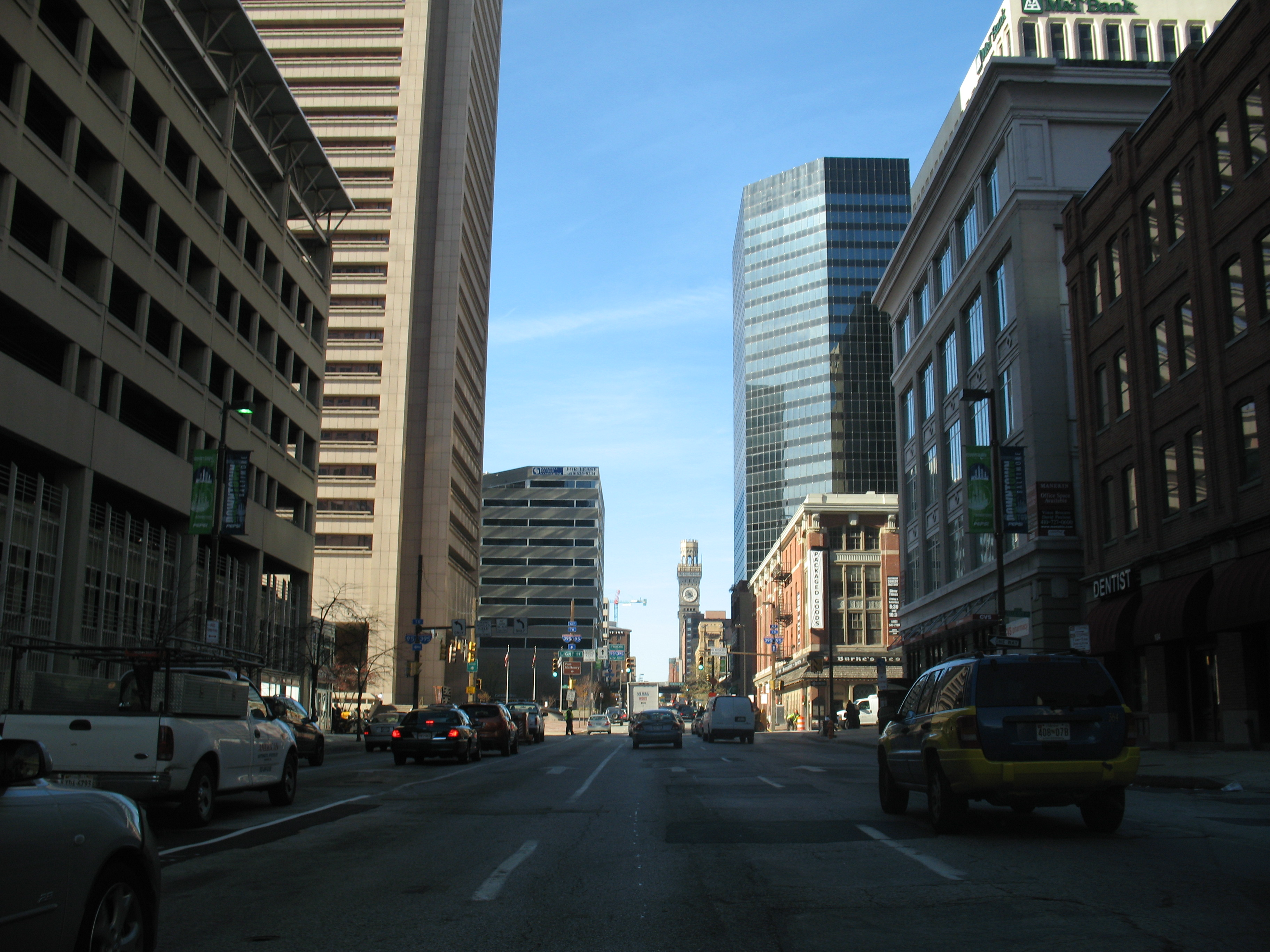 Lombard Street between Calvert Street and Light Street, Baltimore, Maryland